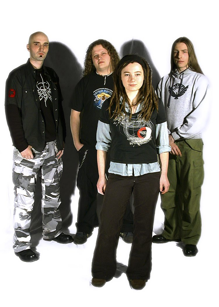 on photo Sceptic polish death metal band